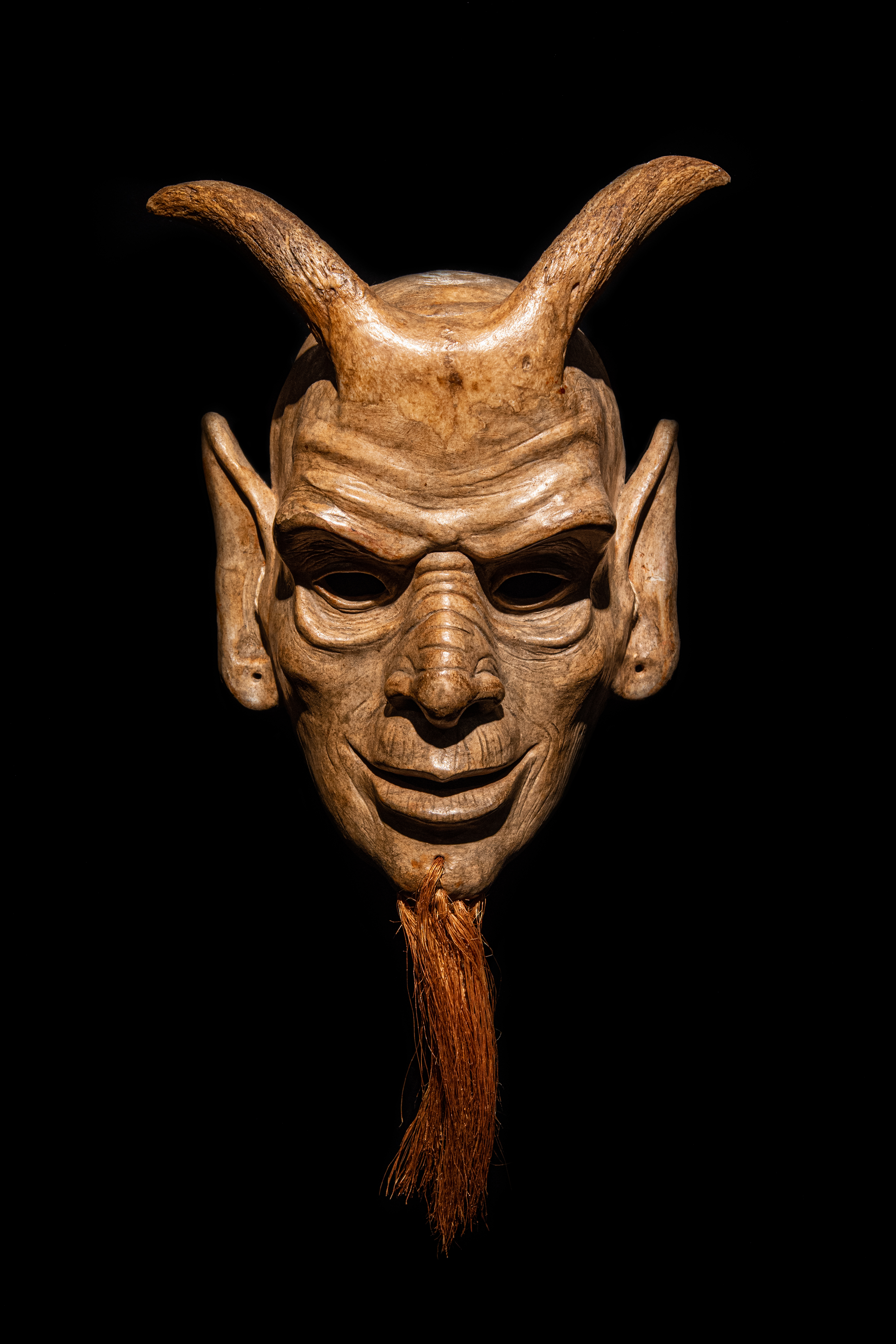 Mask Diabo of Portugal used on folk fest of Carnaval on Tras-os-Montes, o distrito de Braganca. This photo has been taken in the country: Brazil